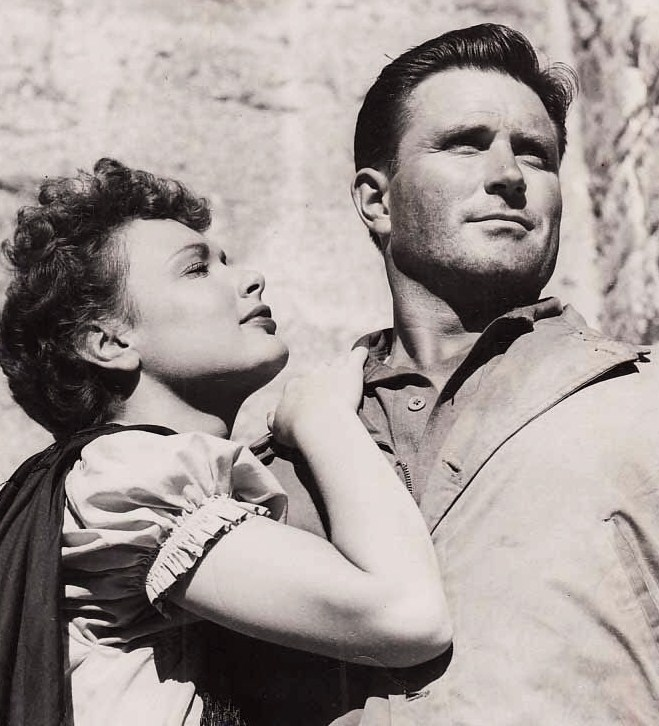 Suzanne Dalbert and Greg McClure in Breakthrough (1950) - publicity still (cropped)